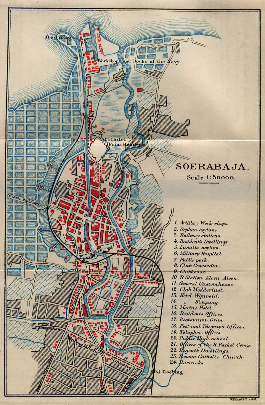 Map of Surabaya, Indonesia, from Guide to the Dutch East Indies by Dr. J.F. van Bemmelen and G.B. Hoover, Luzac & Co, London 1897. Lower right corner: Tresling & Co., Amsterdam.